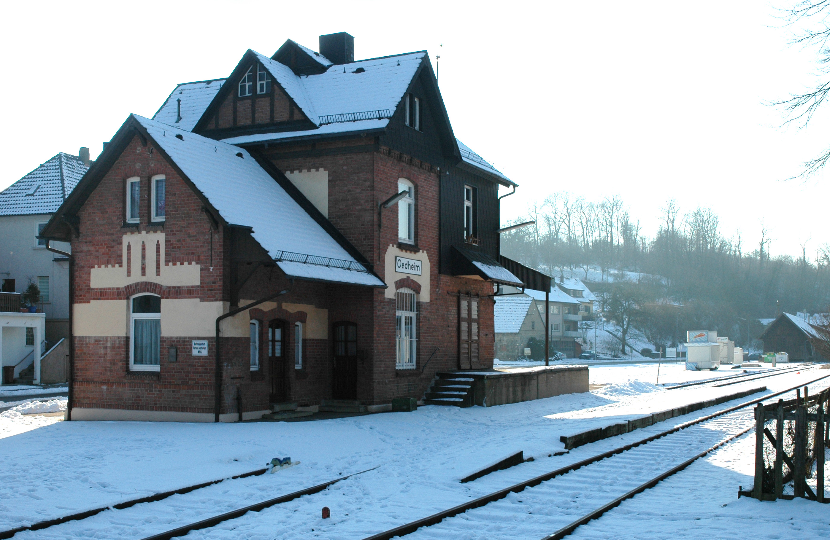 abandoned train station of Oedheim. The tracks have been removed three weeks later.